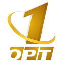 Channel One Russia third logo (January 1, 1997 to September 30, 2000)